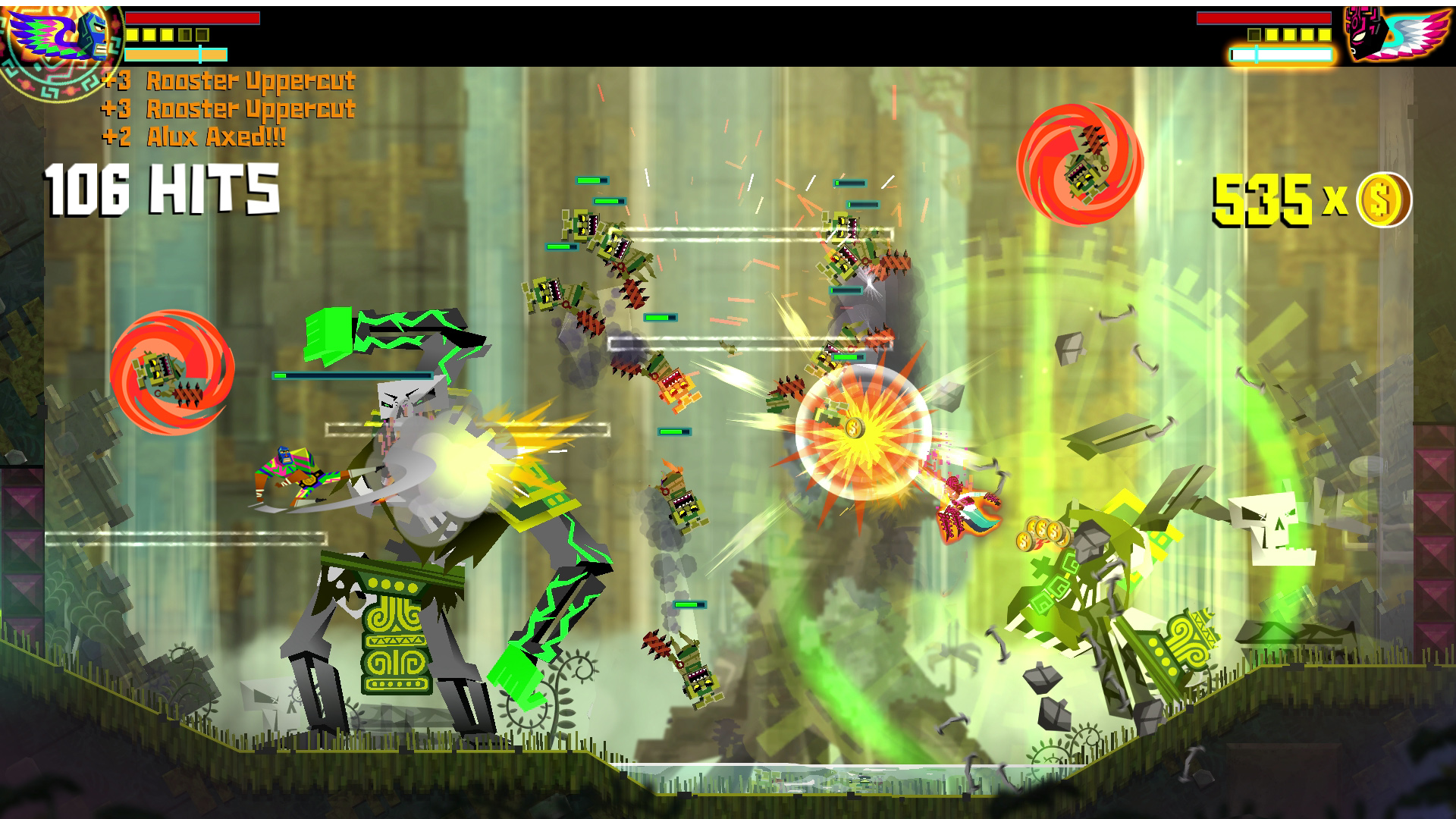 Screenshot from Guacamelee!